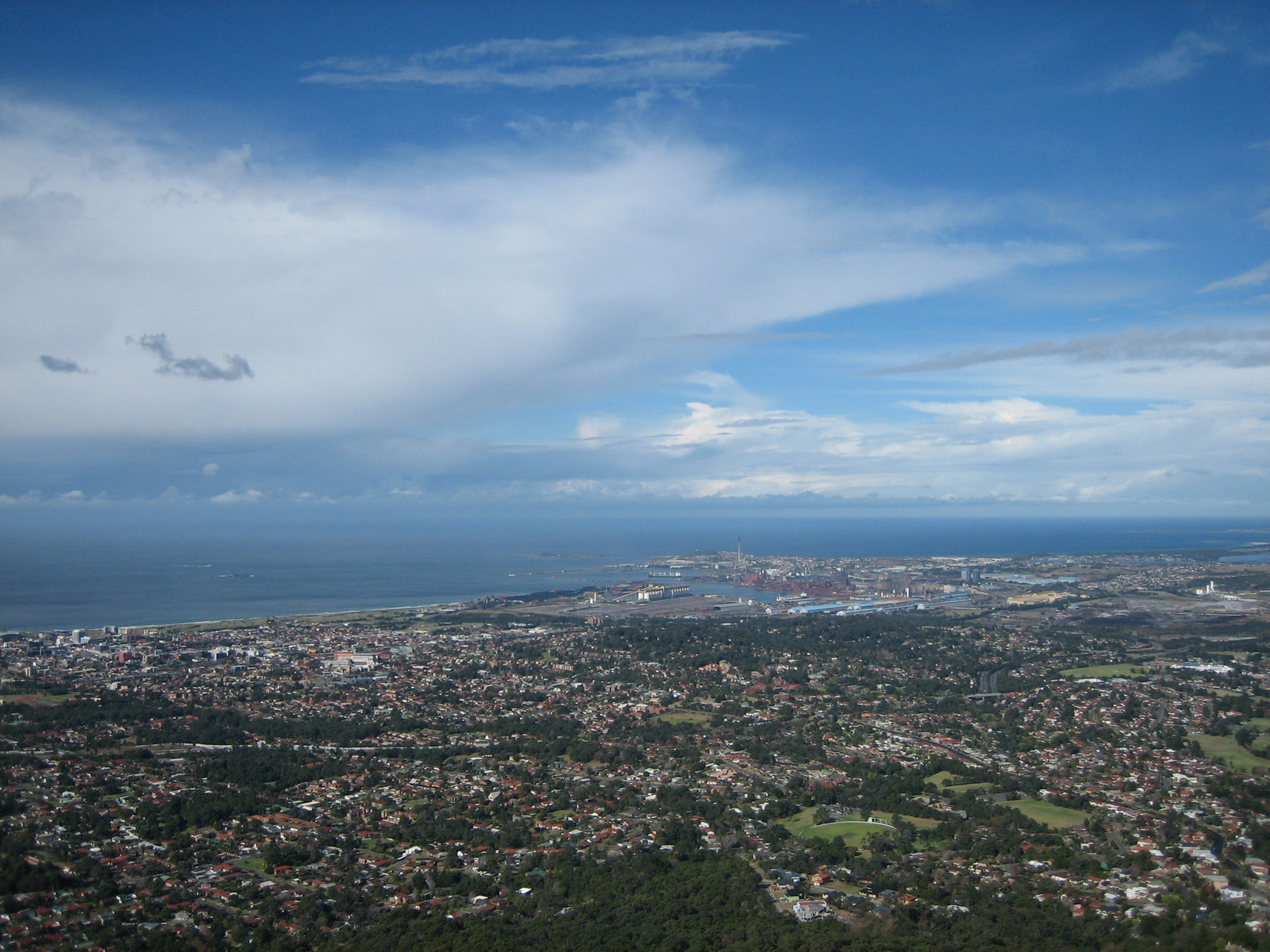 View of Wollongong city from summit of Mt Keira, you can see Port Kembla in the distance. This photo is facing south.